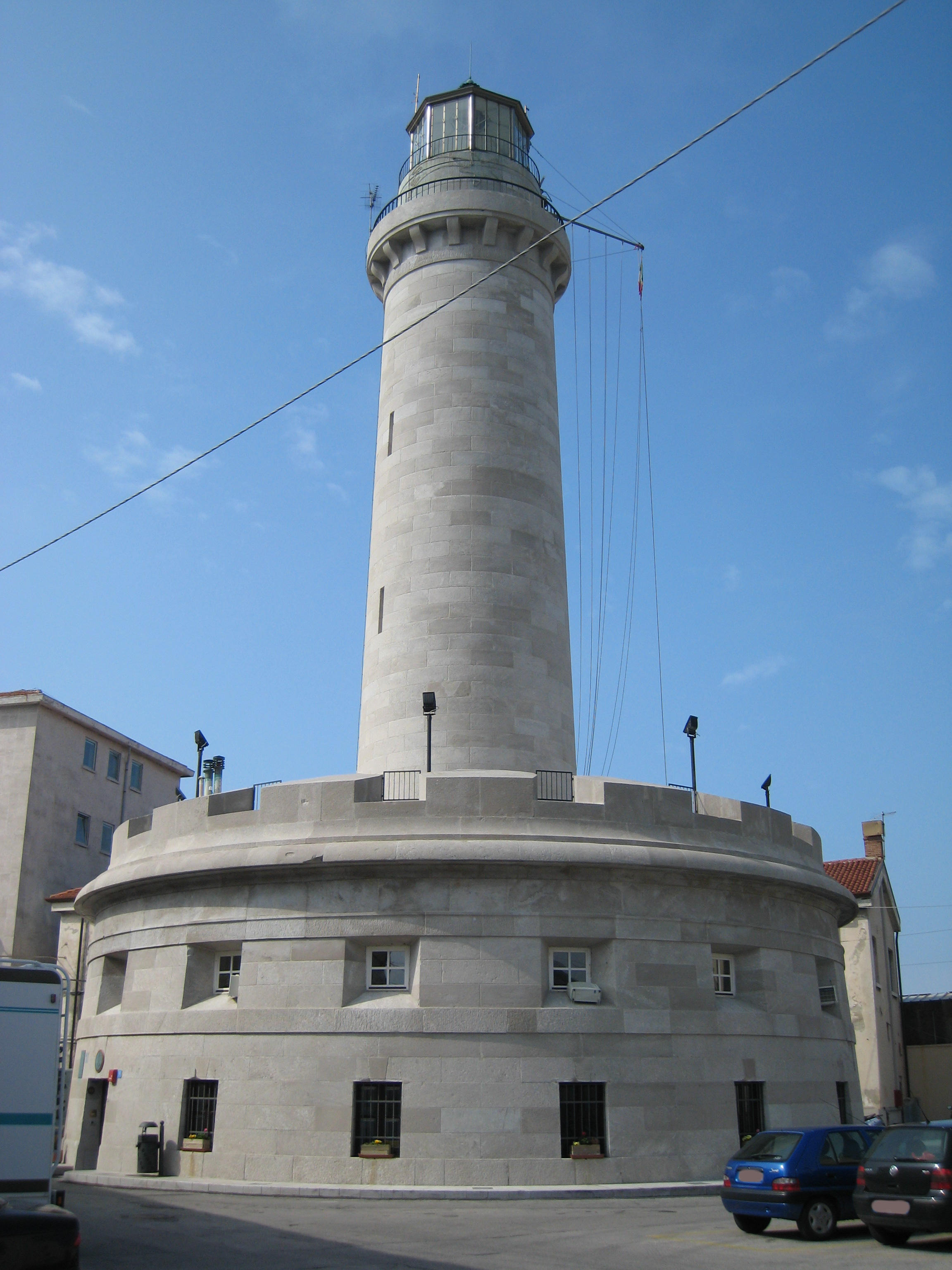 Lanterna - Trieste - Italy